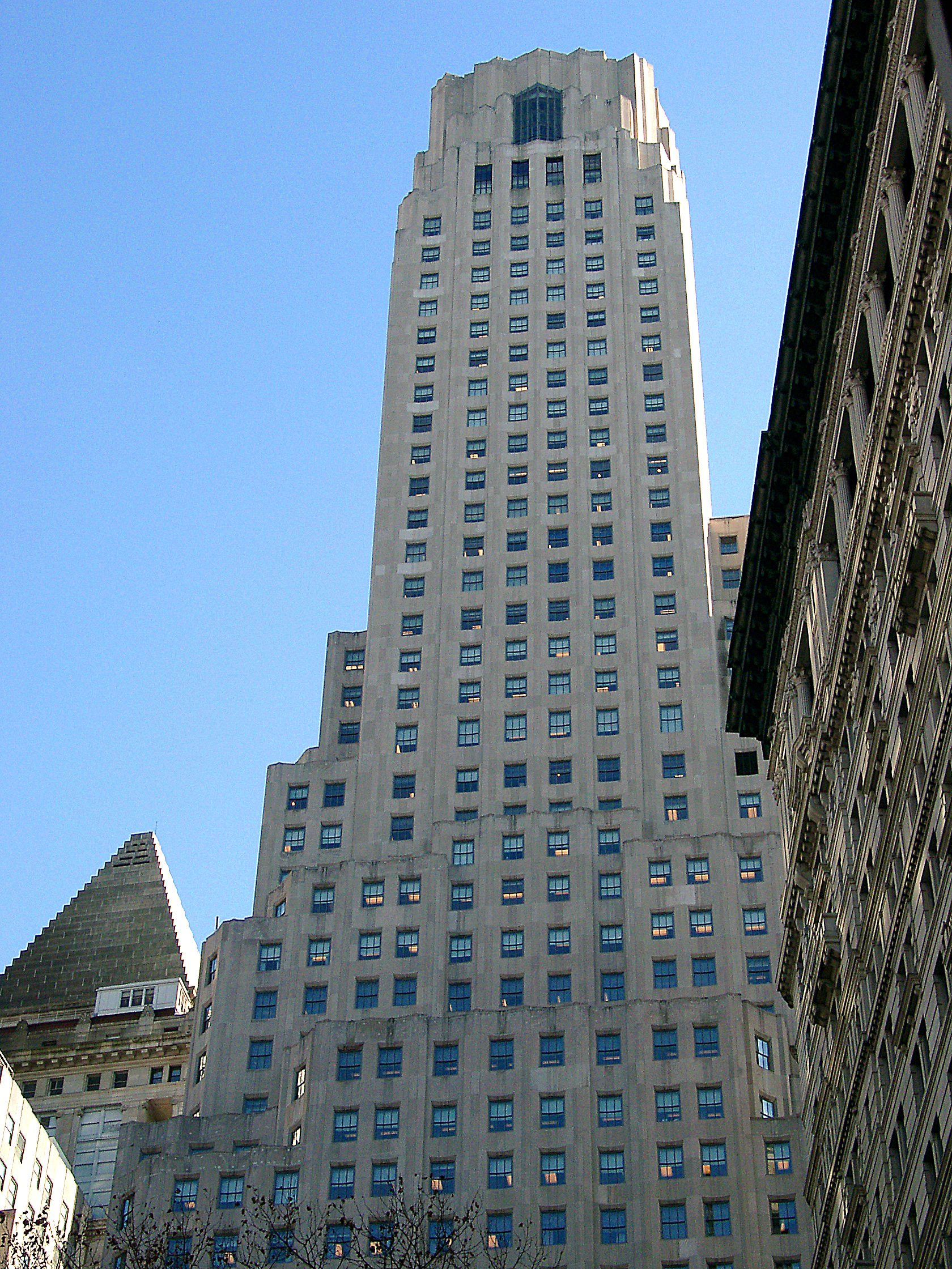 1 Wall Street, the Bank of New York Buidling (was Irving Trust Co. Building)Irving Trust Co. (now Bank of New York)